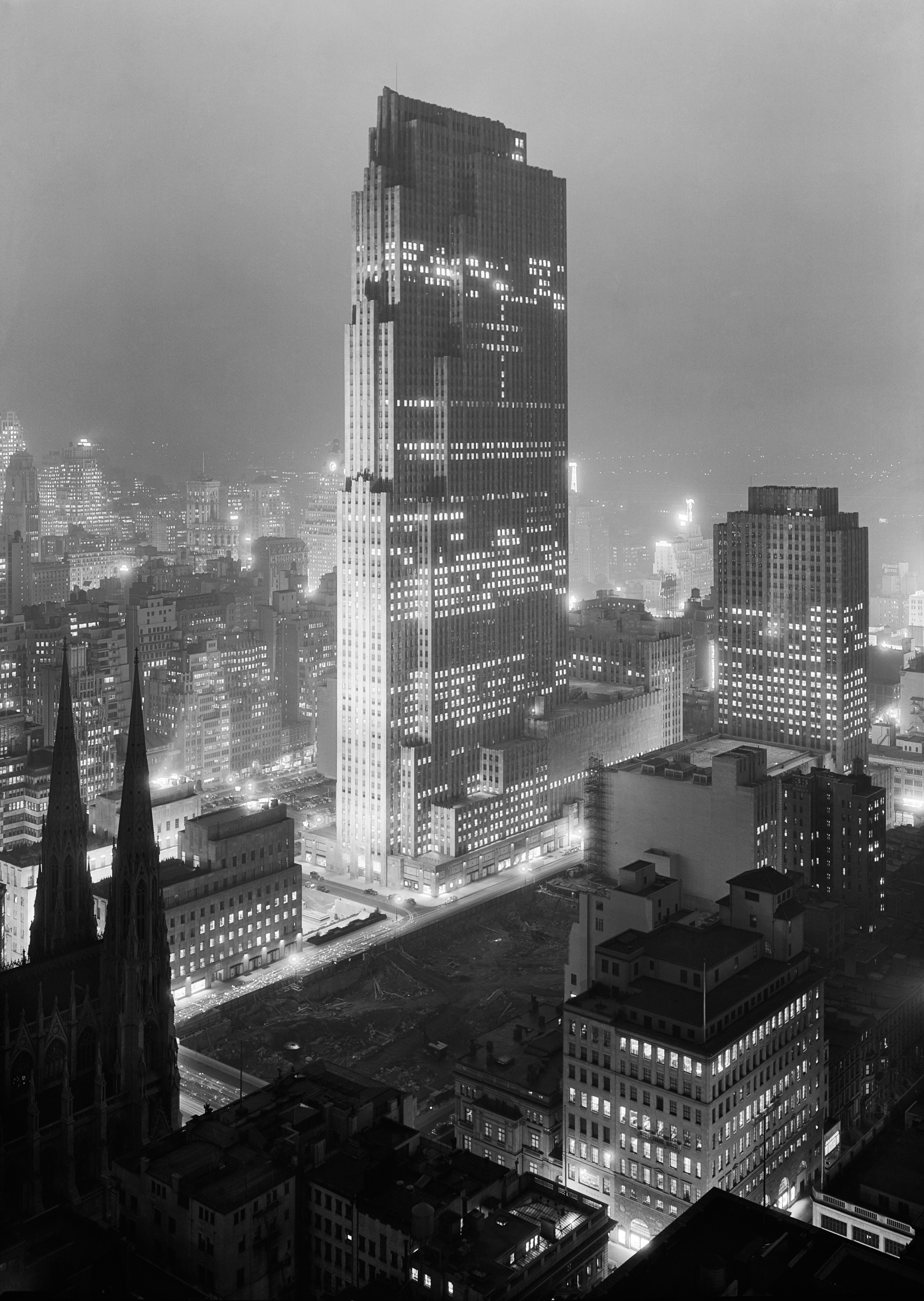 "New York City views. Rockefeller Center and RCA Building from 515 Madison Ave. In 2004, the Library contracted with Chicago Albumen Works to preserve this deteriorating acetate negative by removing and relaxing the emulsion layer (the pellicle) and producing duplicate negatives and digital files." This image is a digital file from 5×7" pellicle acetate negative.